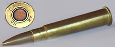 A .303 British cartridge. .303 inch centrefire, rimmed ammunition. Rimmed, centerfire .303 in cartridge from WWII. Manufactured by Colonial Ammunition Company, New Zealand in 1945. Standard Mk VII .303 inch cartridge for Lee-Enfield rifle. Rimmed, centrefire .303 inch (7.7 mm) cartridge from WWII. Military .303 British 174g FMJ cartridge.